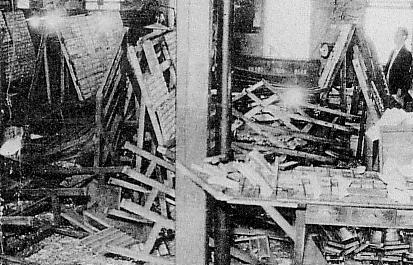 Niigata Nippo attack